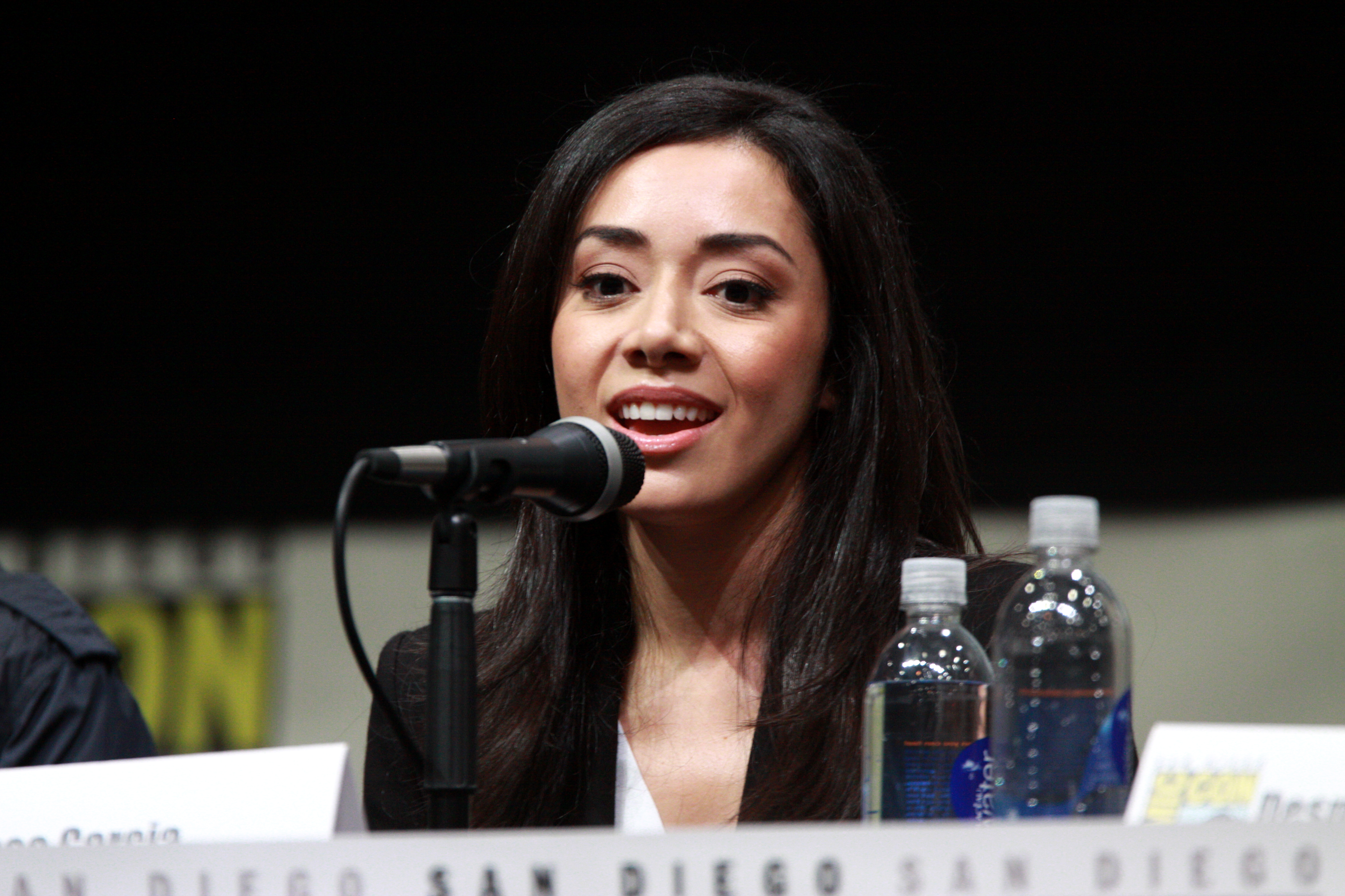 Garcia at San Diego Comic Con International in 2013